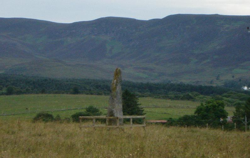 Uploader's own picture of the Clach Biorach. The stone was in the middle of a field, so couldn't get a closer shot. Sorry.